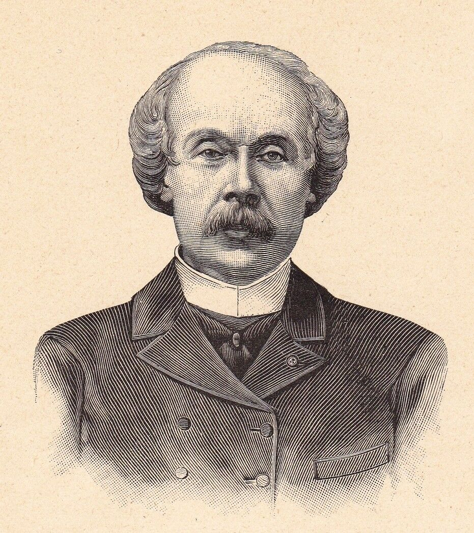 French writer and playwright Adolphe d'Ennery (1811-1899)